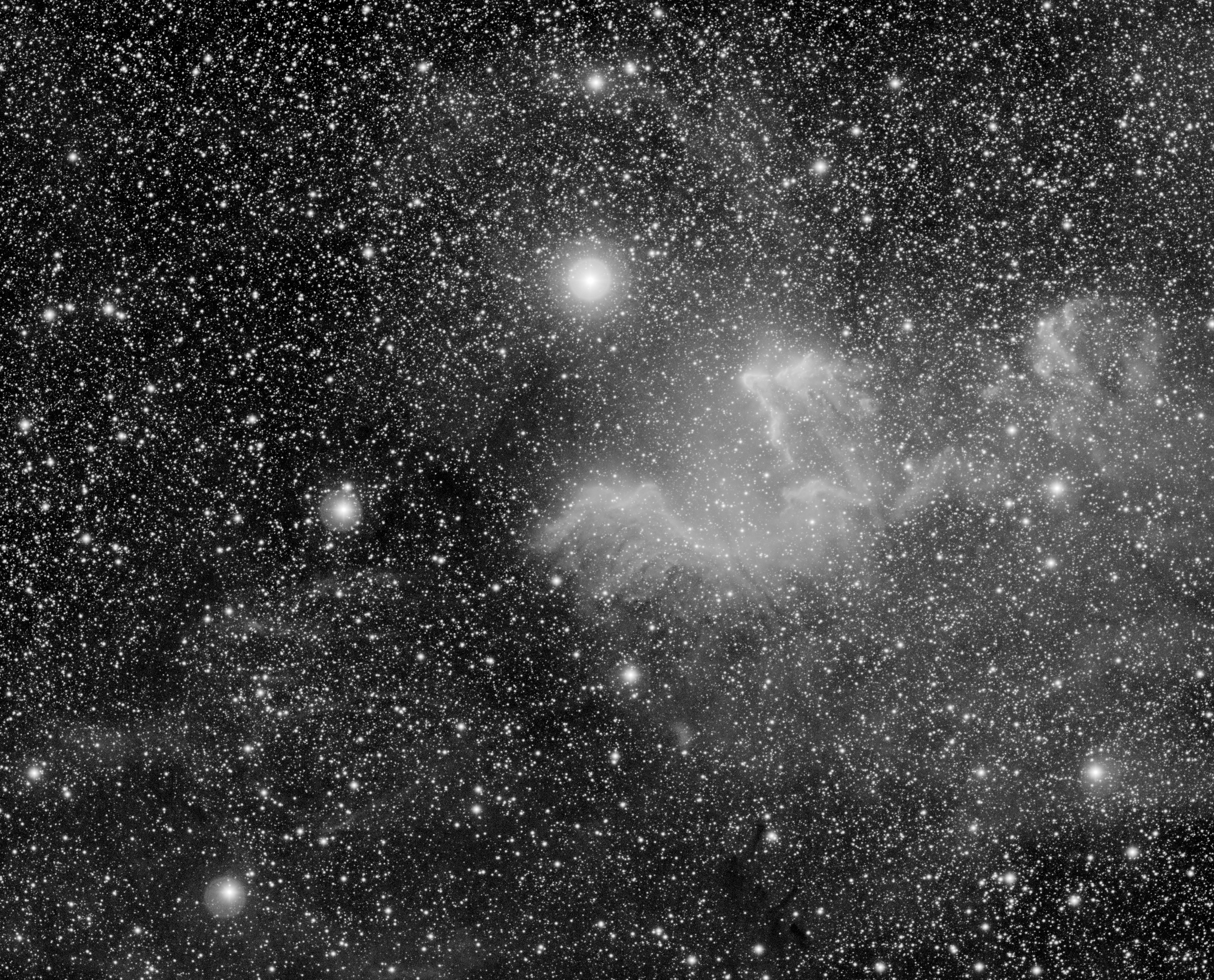 This H-Alpha image shows the Hydrogen Nebulosity near the Monster Star Gamma Cas in Cassiopeia. (40,000 times more luminous than the Sun) This image is a stack of 100 exposures 15 minutes each through a Ha filter. Esprit 100 refractor+ QHY16200 CCD @ -20C. (8,11,12 june+ 5,6,9,10,11,12,13,14 november 2017.)